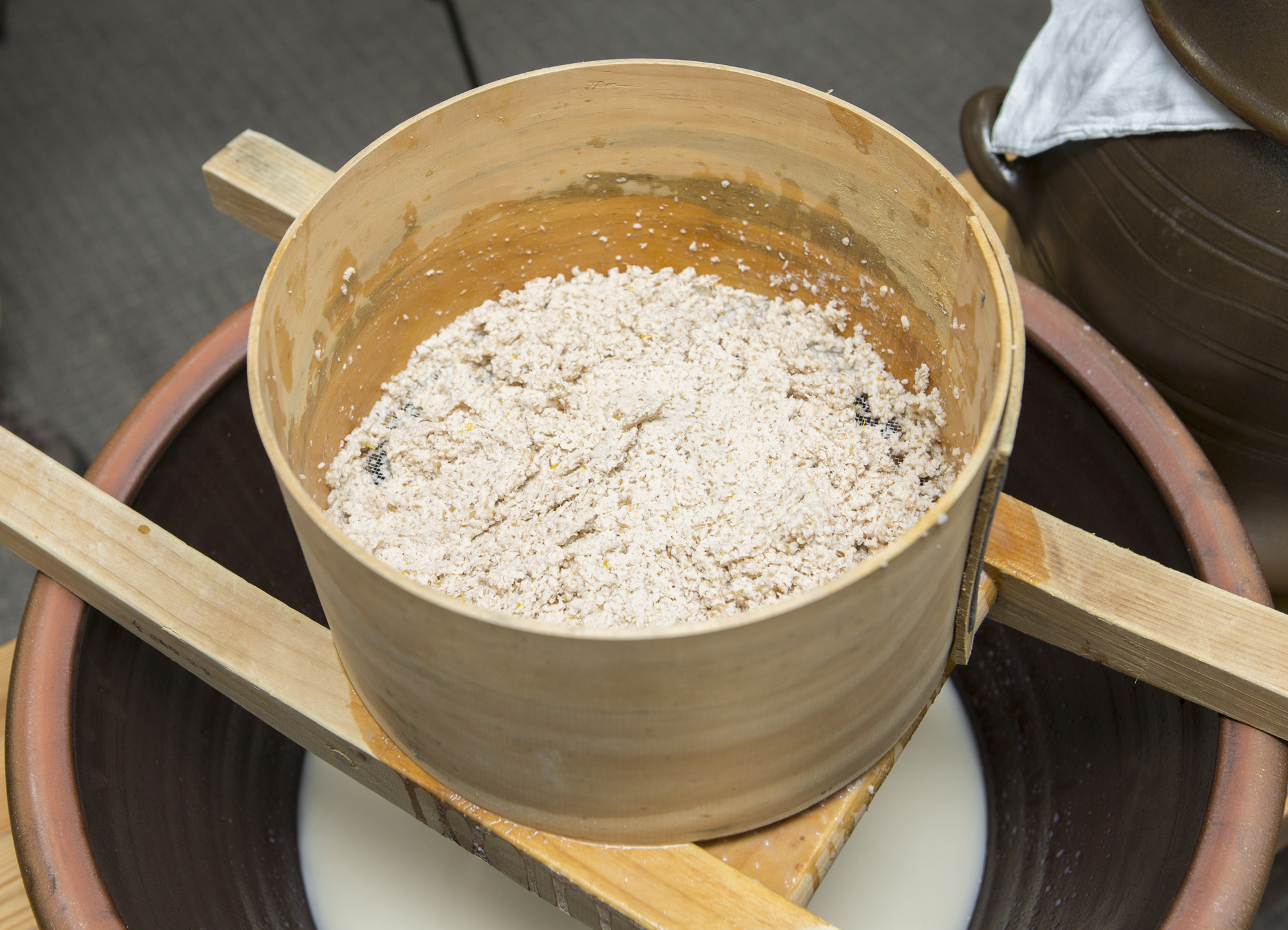 Rice wine lees